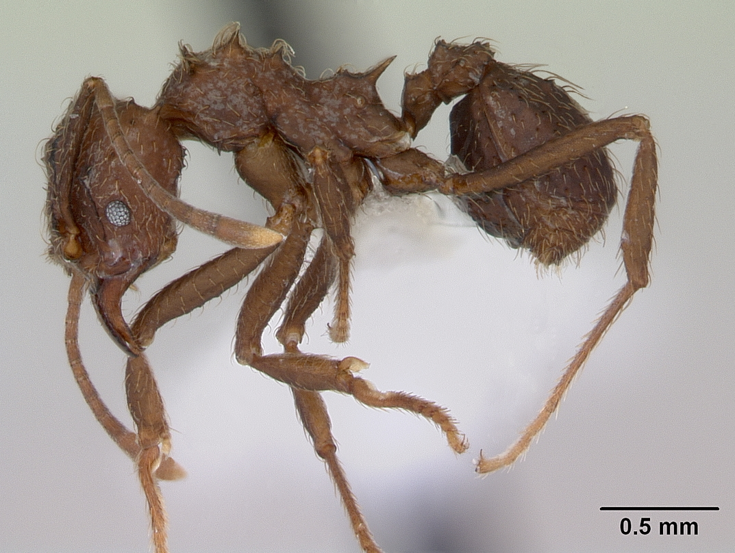 Profile view of ant Acromyrmex crassispinus specimen casent0173793.